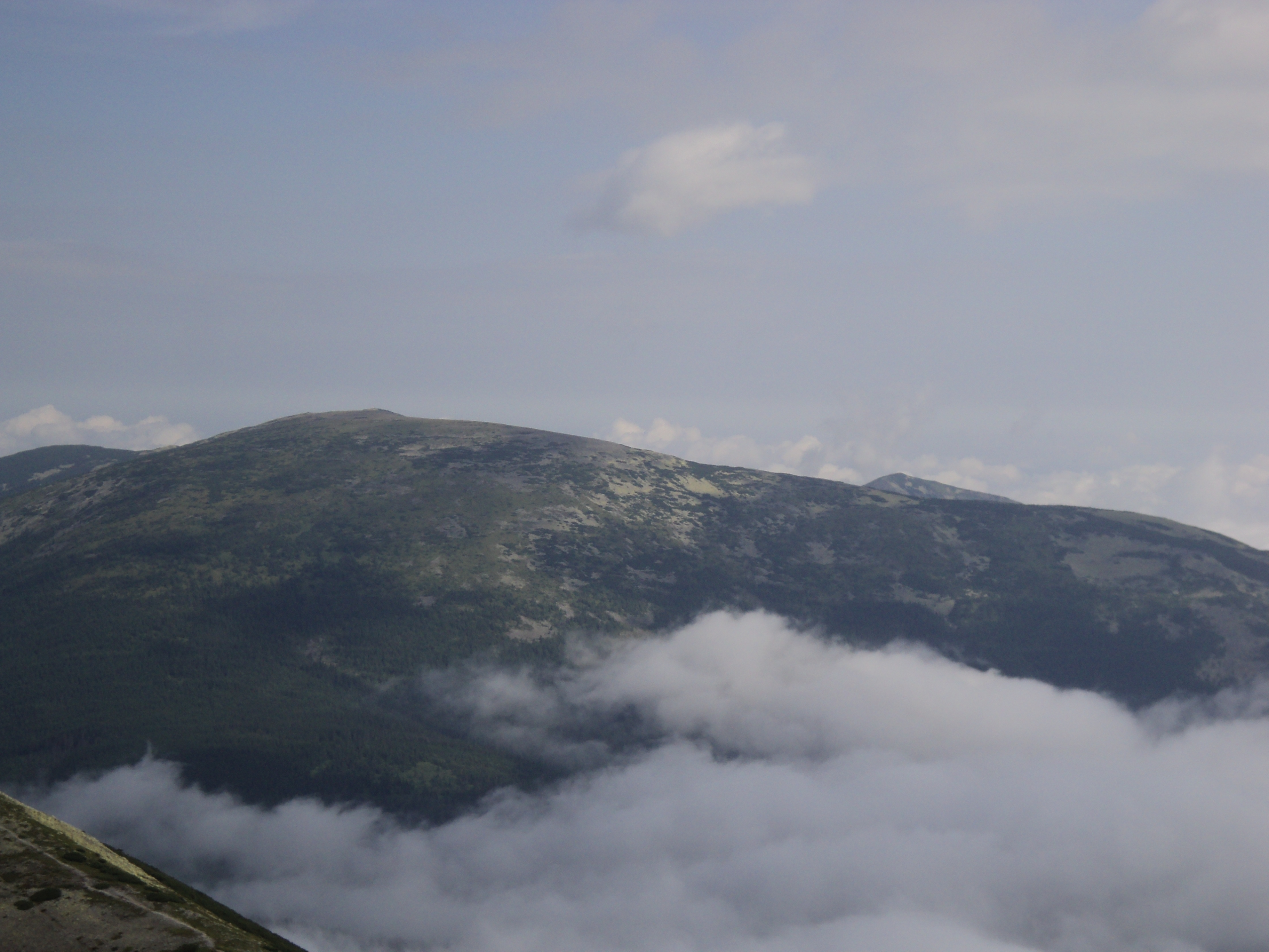 Ihrovets, left Vysoka (High), right behind him Serednya (Average). View from Velyka Syvulya (Great Syvulya)